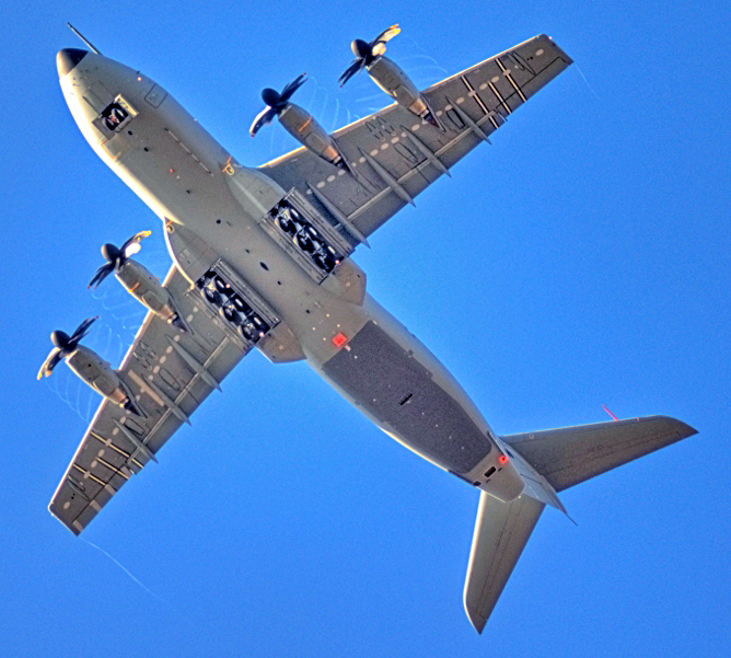 First Flight Airbus A400M